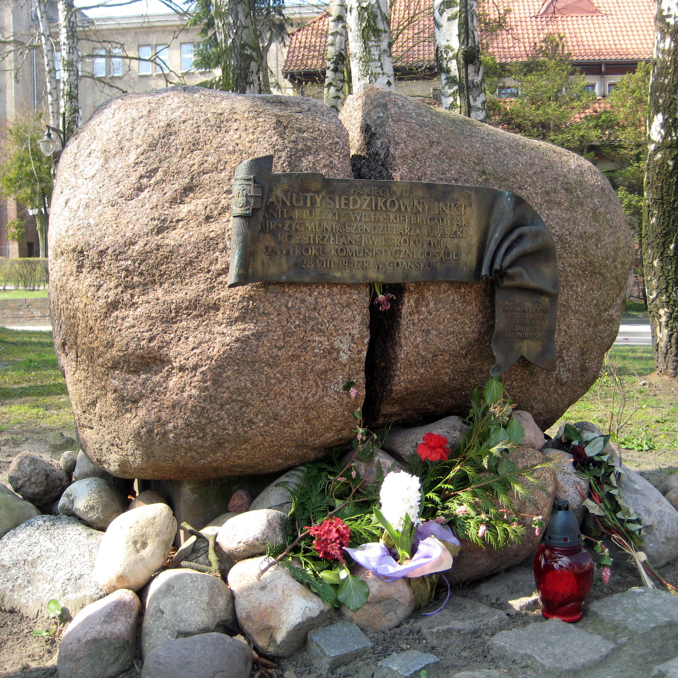 Memorial Stone for Danuta Siedzikówna in Sopot